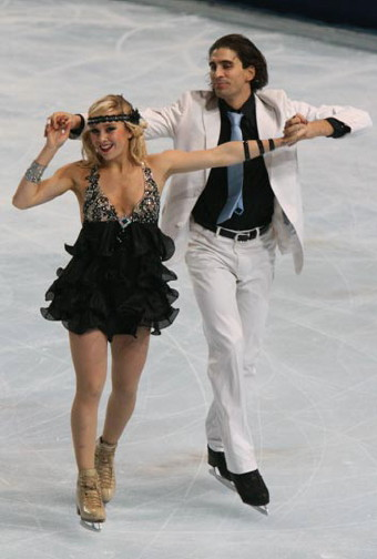 Pernelle CARRON / Mathieu JOST at the 2008 TEB.